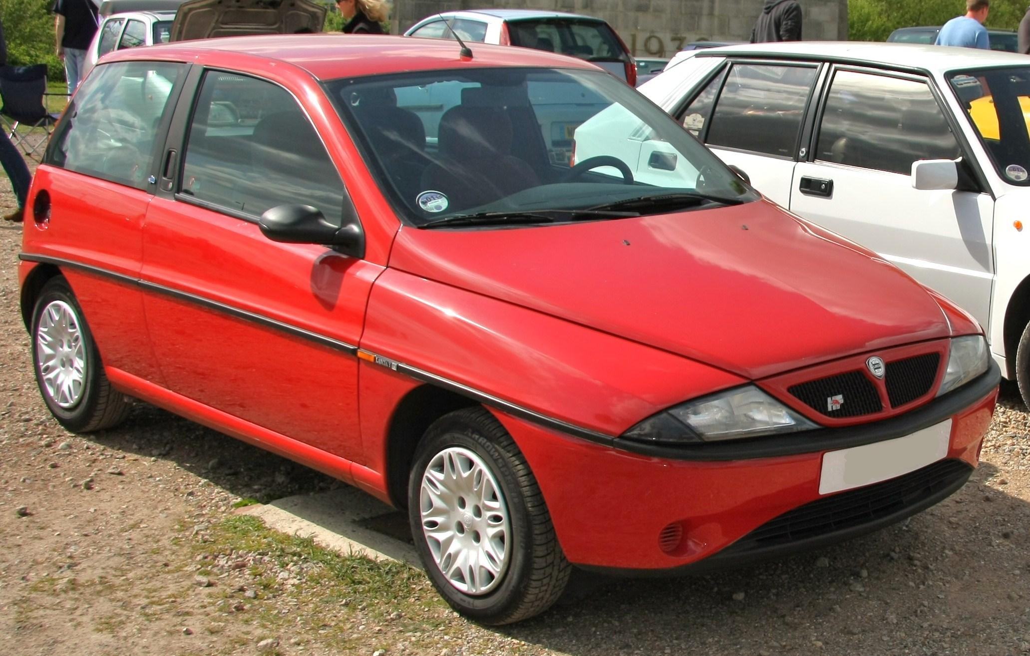 Lancia Y